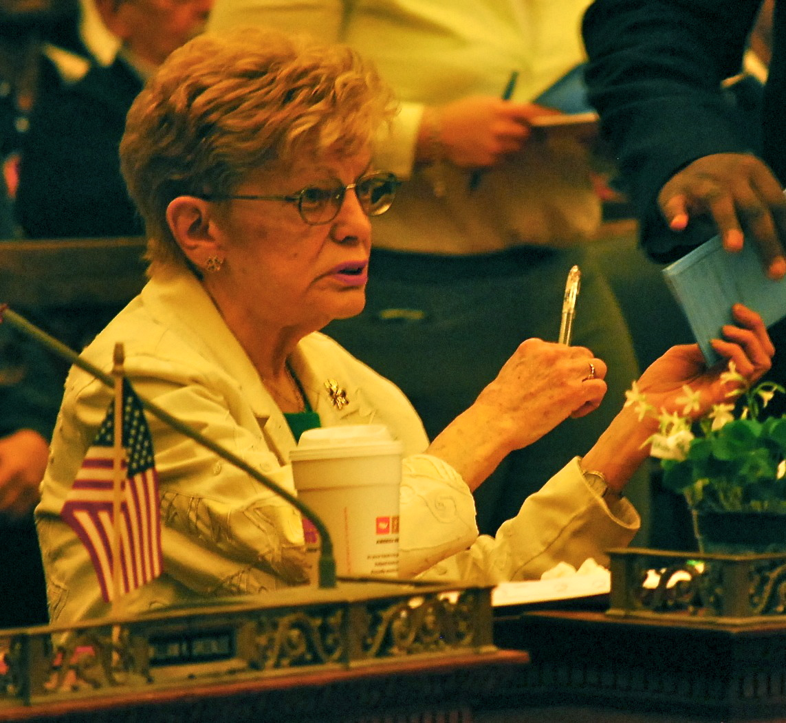 Councilwoman Krajewski read a proclamation denouncing merchandise derogatory to the Irish being sold at Spencer Gifts. Members of the AOH were on hand for the reading.